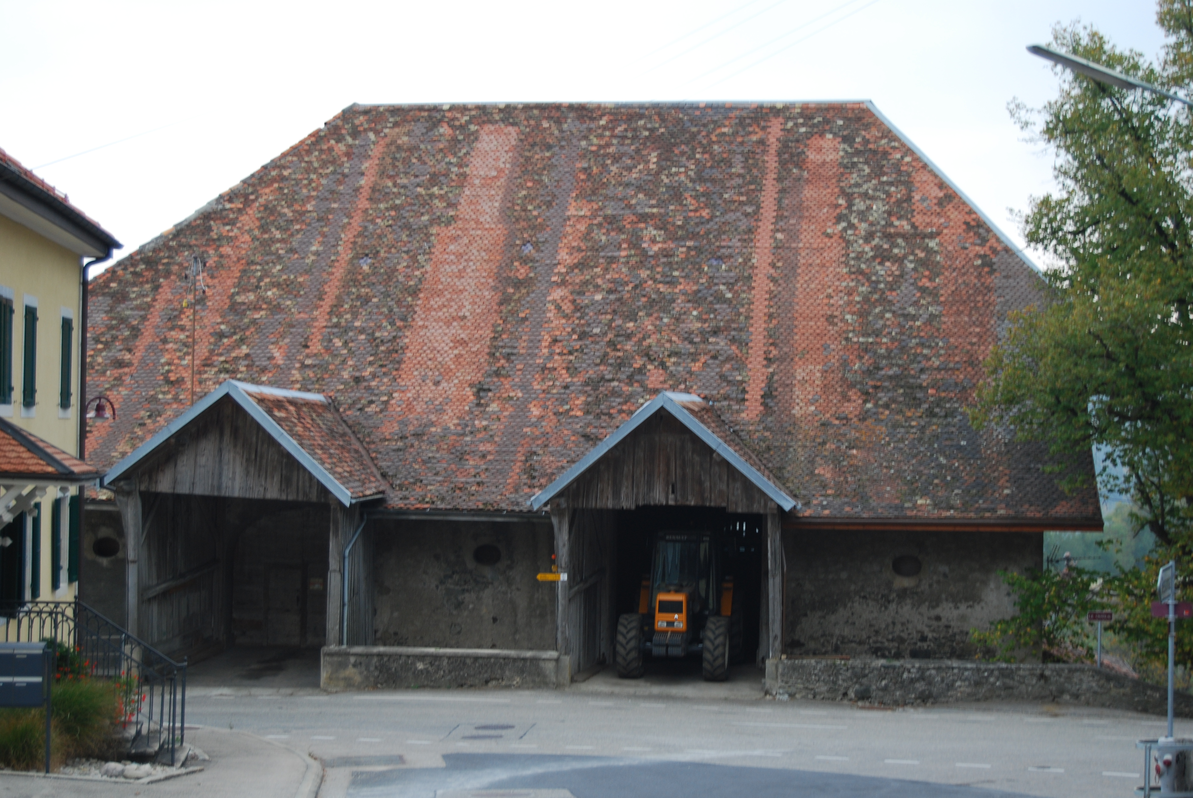 Lignerolle, canton of Vaud, Switzerland